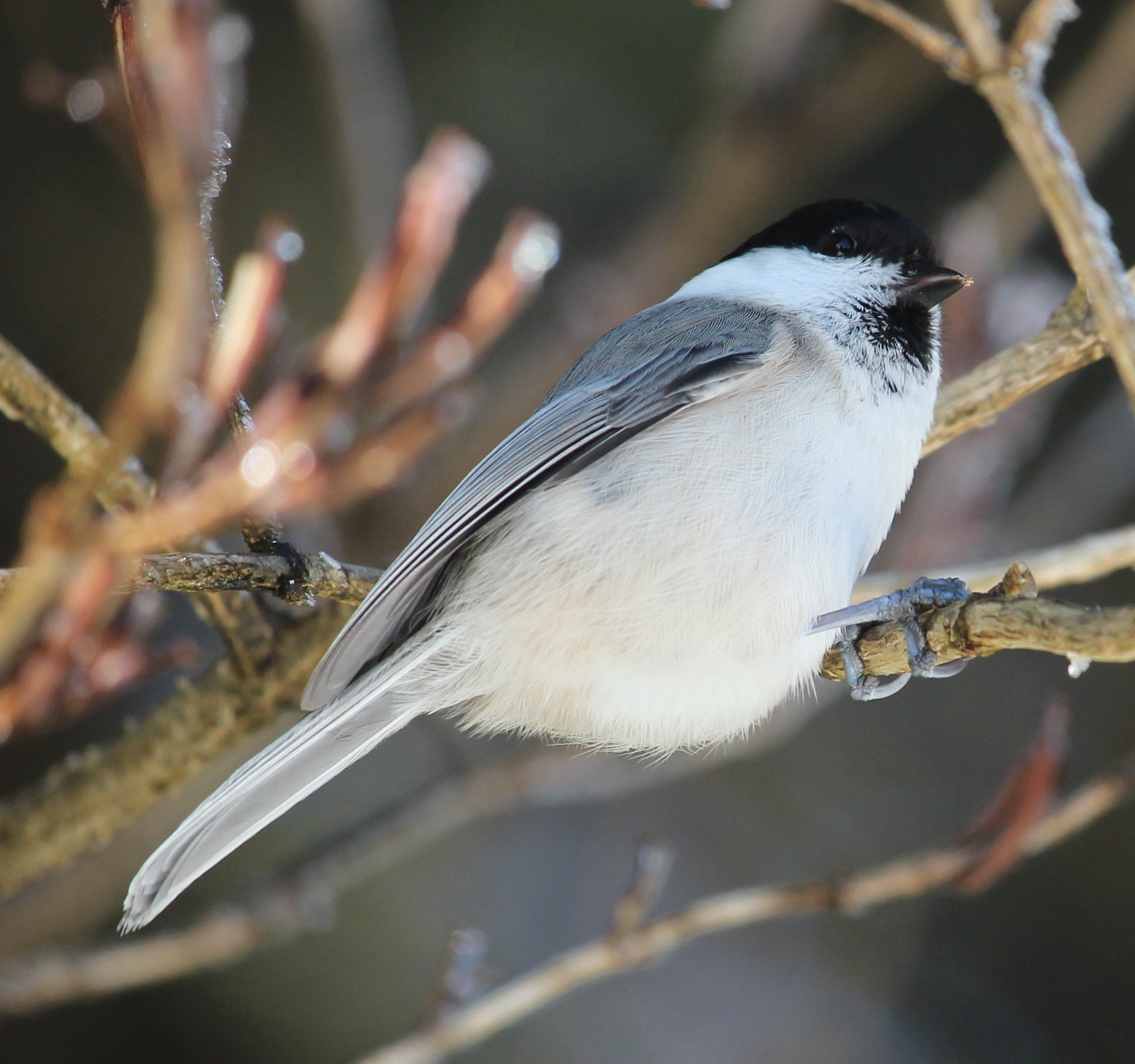 Willow tit, Poecile montanus restrictus (Hellmayr, 1900), in Mount Fujimidai, Kiso Mountains, Achi, Nagano prefecture, Japan.